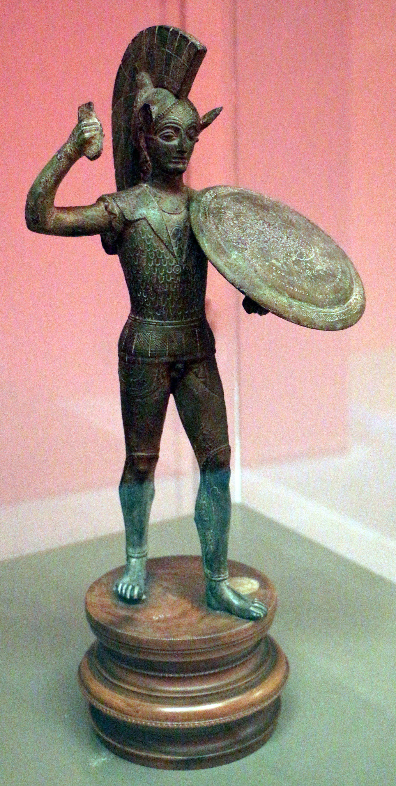 Etruscan bronze statuettes in the Museo archeologico nazionale (Florence)